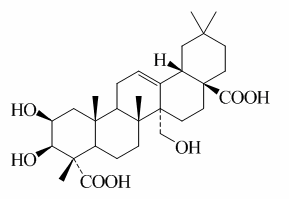 Presenegenin skeleton